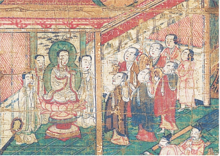 Lay people (five men, one woman, and one child) bring offerings to shrine with statue of Mani and three elects.